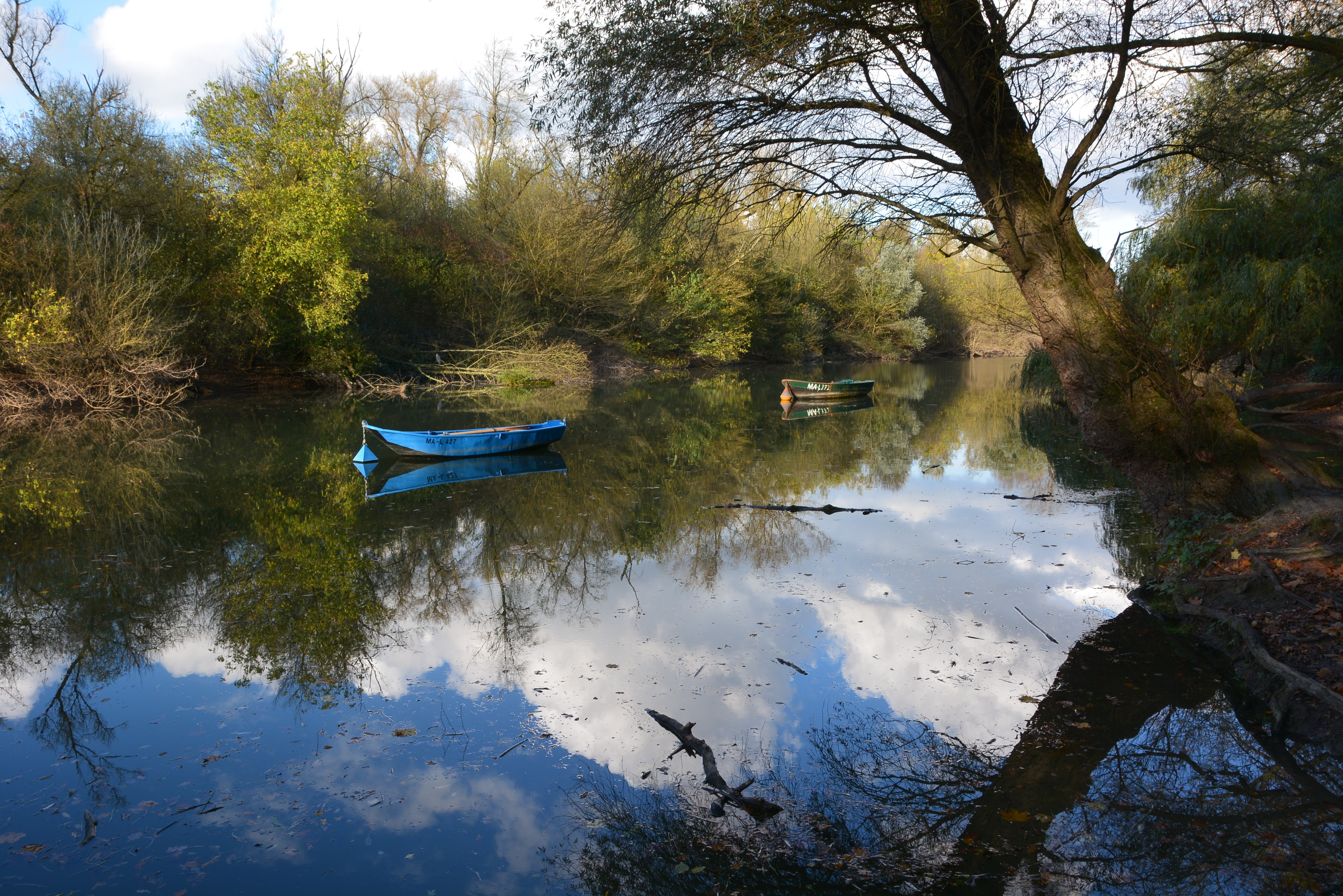 Forest park, Mannheim, Germany, view over creek Bellenkrappen to nature reserve Reißinsel